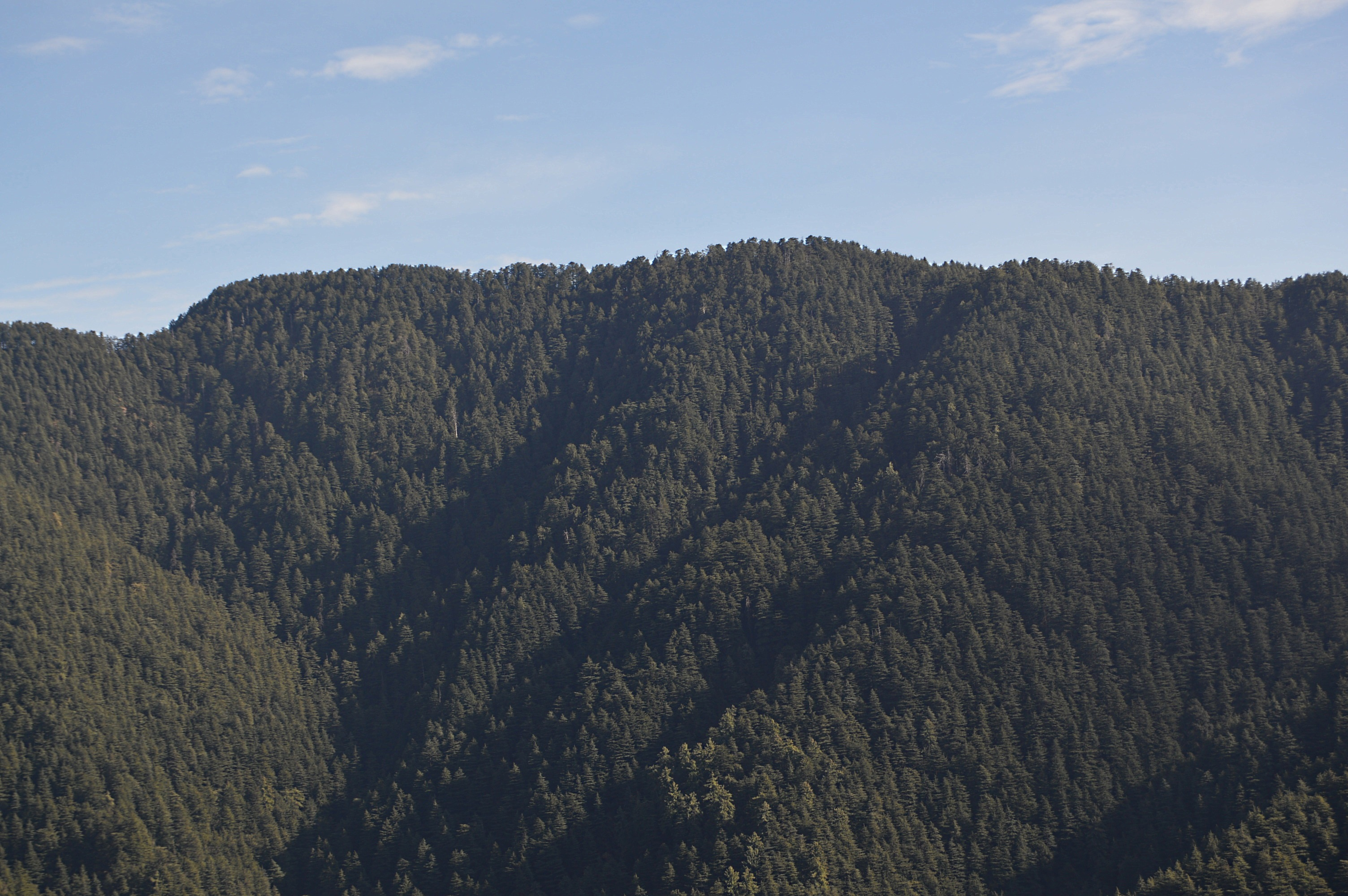 Shimla Water Catchment Sanctuary, photo by R S Pirta